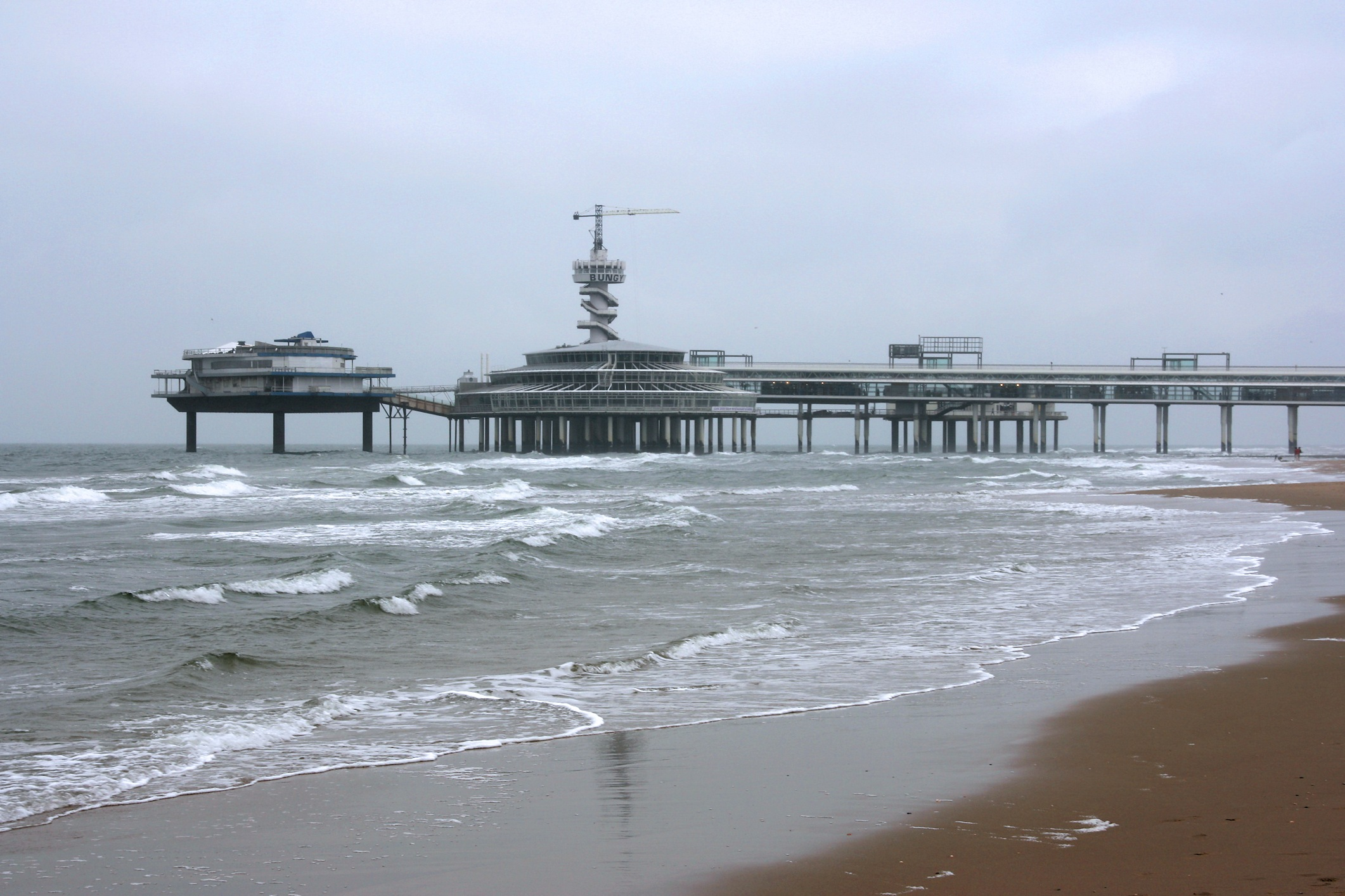 Scheveningen pier in Hague, Netherlands.